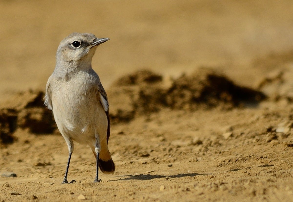 Red-tailed Wheatear at Banni Grasslands, Great Rann of Kutch